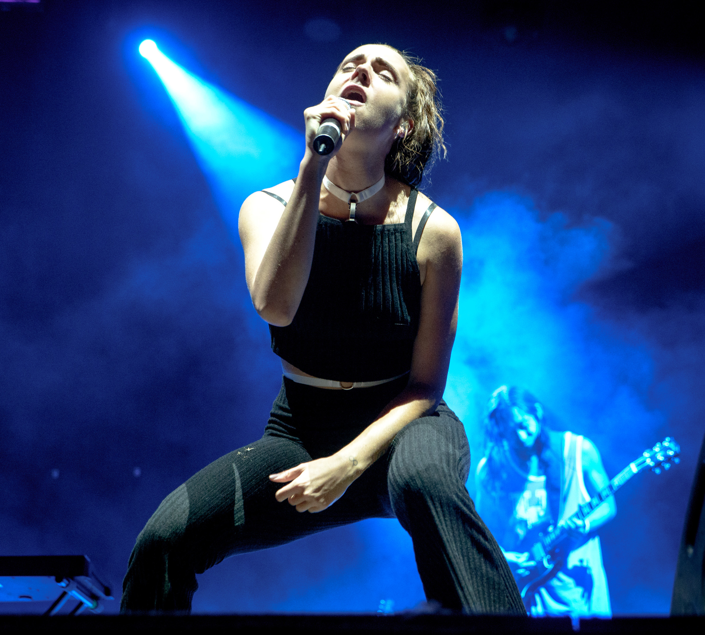 MØ Live @ Utopia Island 2015